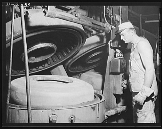 Worker operating an automatic vulcanization mold at Firestone (General) Tires, Akron, Ohio. The mold is closed by pushing a button, which starts several operations. First the airbag is filled with live steam which circulates during the entire process; next an automatic timer sets itself for the proper length of time and temperature; next pressure is exerted to squeeze the tire into the mold pattern.